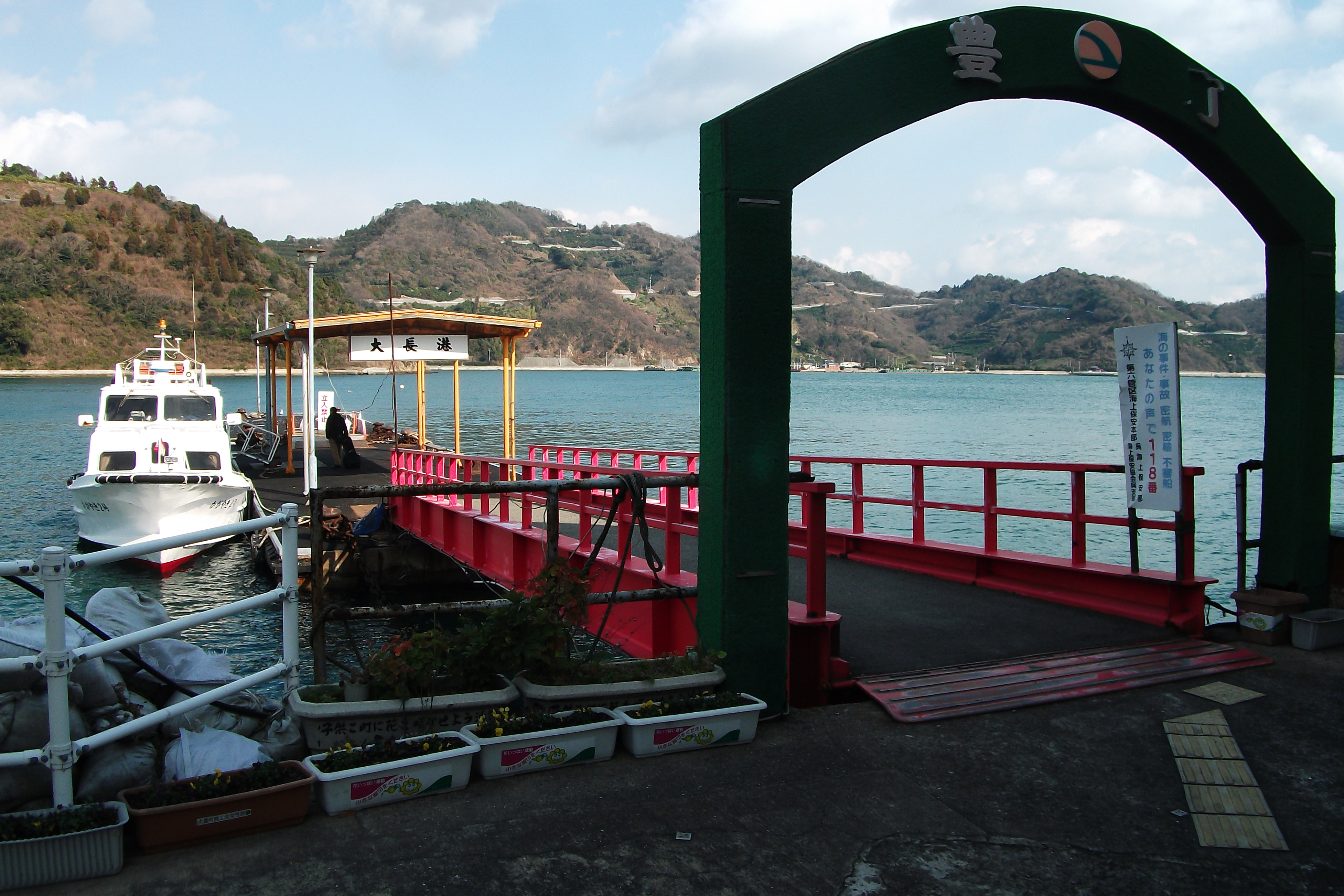 The port of Ocho, on Osaki-shimojima island.